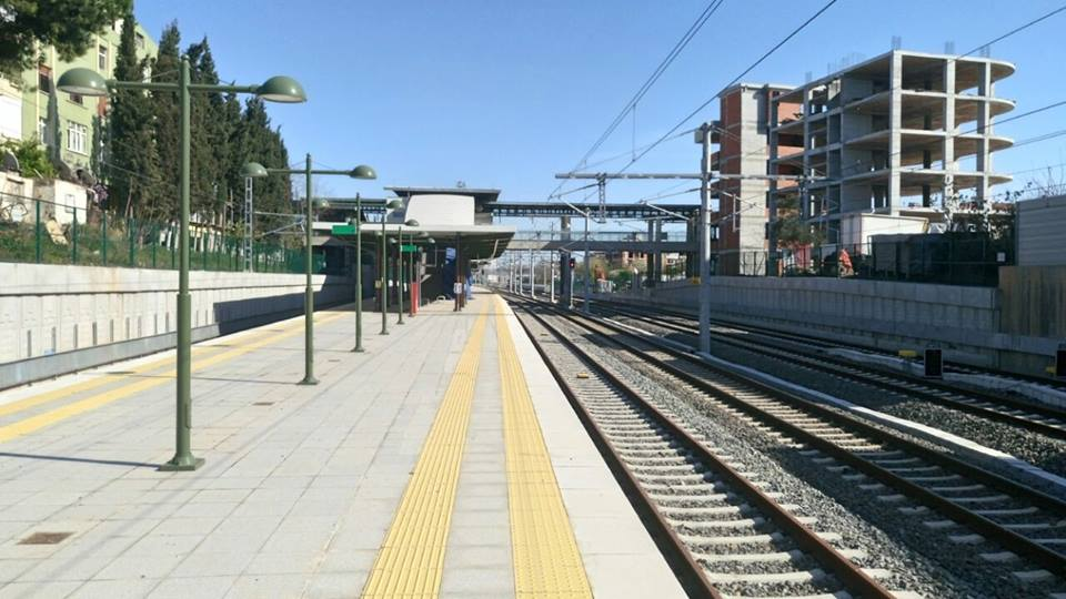 Tuzla Marmaray istasyonu